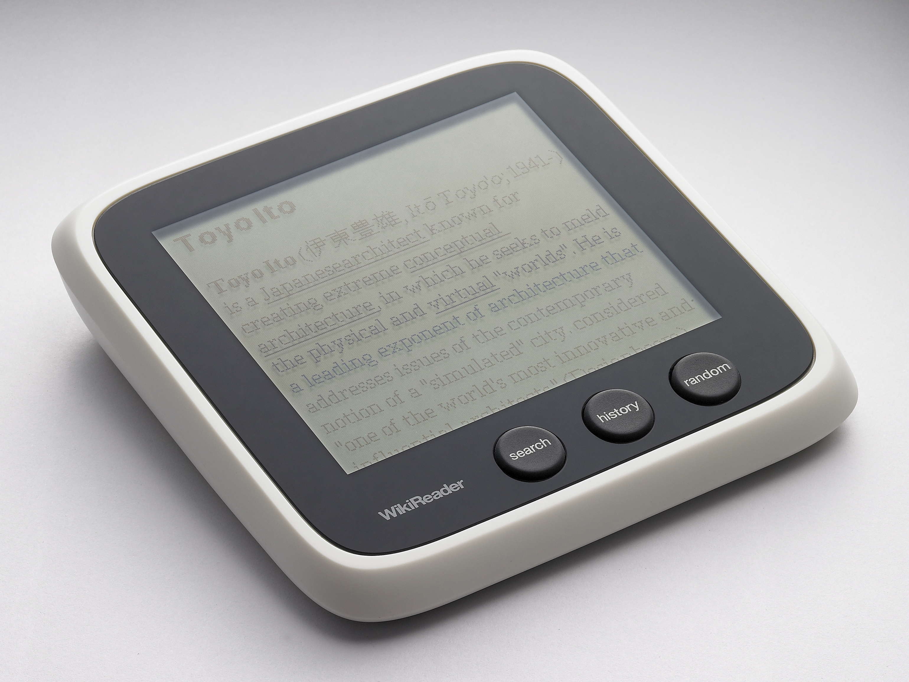 WikiReader close-up showing the Toyo Ito article.